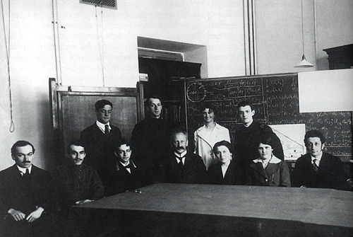 Seminar of Abram Ioffe in Polytechnical Institute, 1915